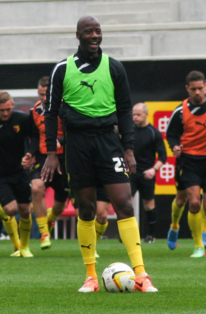 Samba Diakite as a Watford FC player.